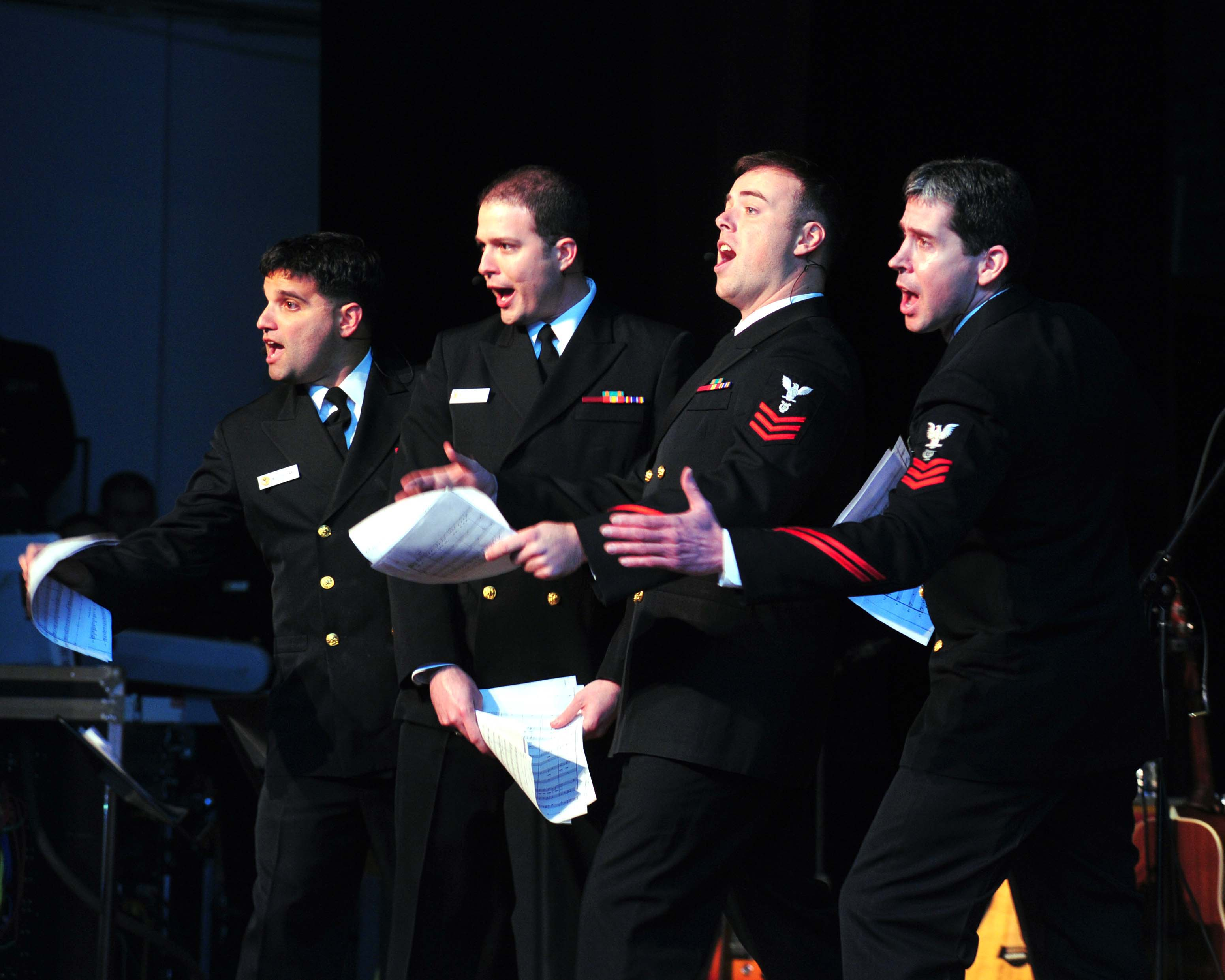 FT. BELVOIR, Va. (Dec. 4, 2009) Musicians 1st Class Michael H. Belinkie, Benjamin L. Bransford III, Michael Webb and Adam Tyler, all members of the Navy Sea Chanters, sing their comedy version of "The Twelve Days of Christmas" at the Wallace Theater at Ft. Belvoir. The U.S. Navy Band in Washington, D.C. is the Navy's premier musical organization and performs public concerts and military ceremonies in the greater Washington area and beyond. (Musician 1st Class David Aspinwall/Released)